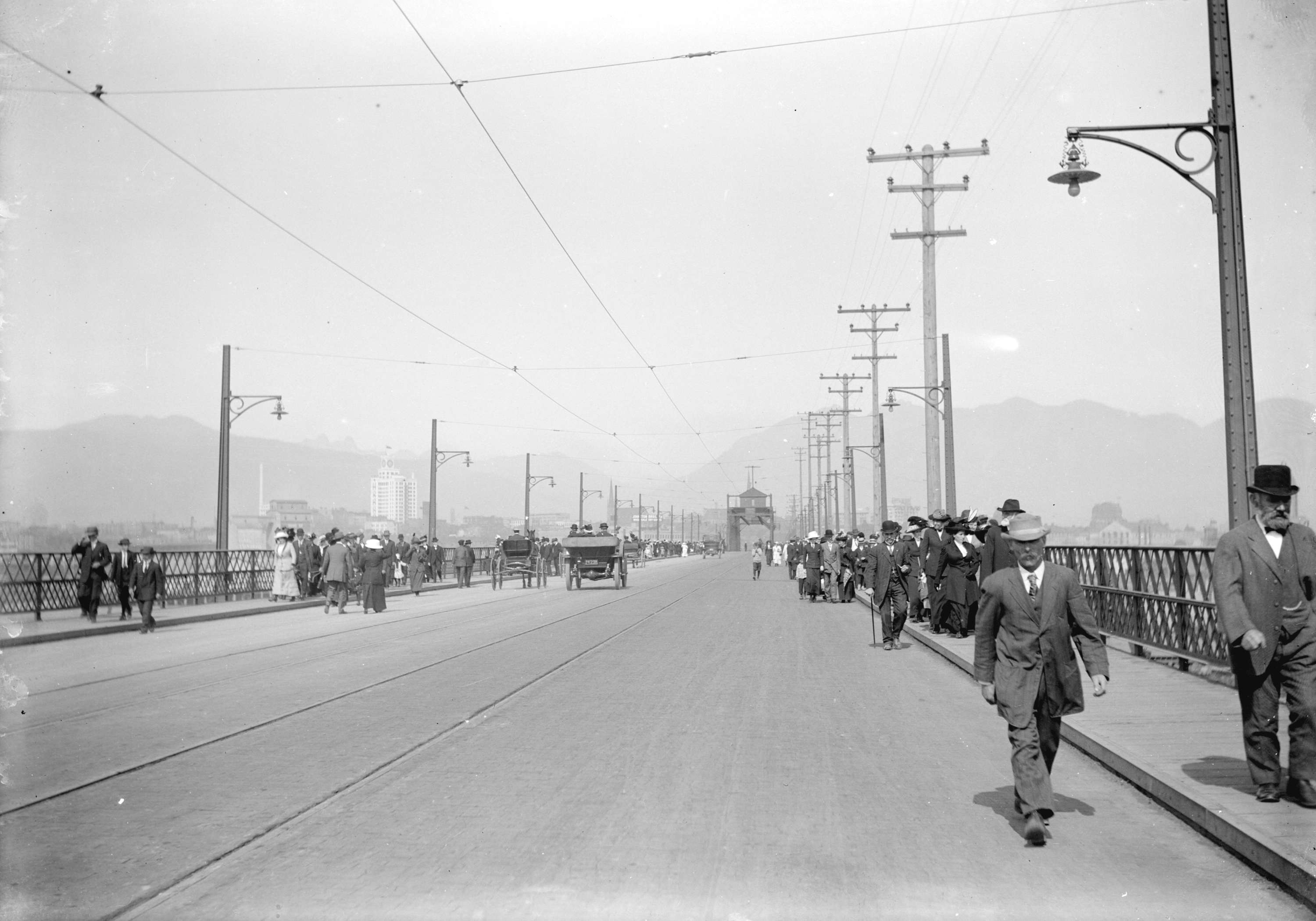 Pedestrians and carriages on Connaught Bridge (Cambie Street Bridge) in Vancouver, soon after official opening.